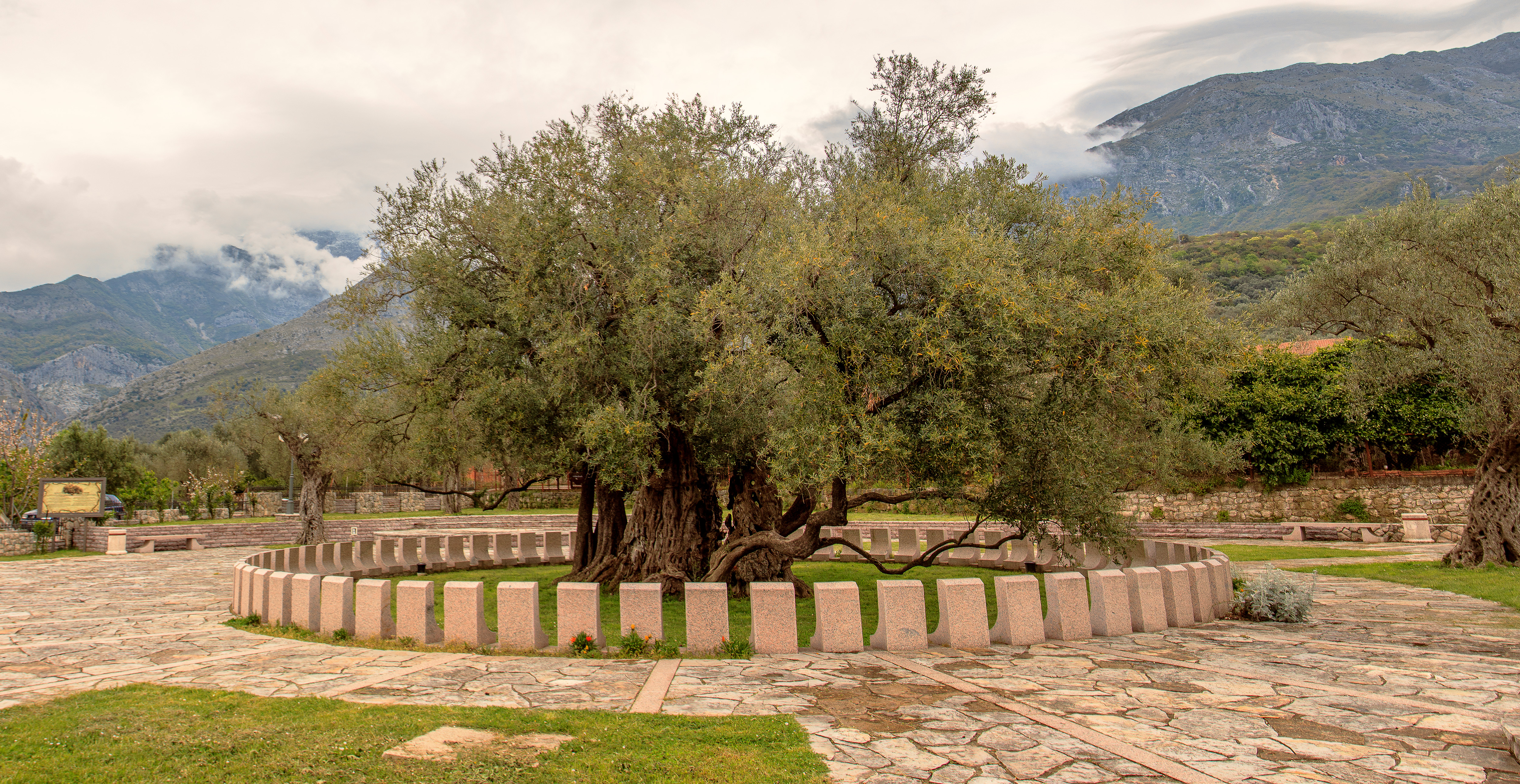 "Olea europea”, which is over 2000 years old. Full view.